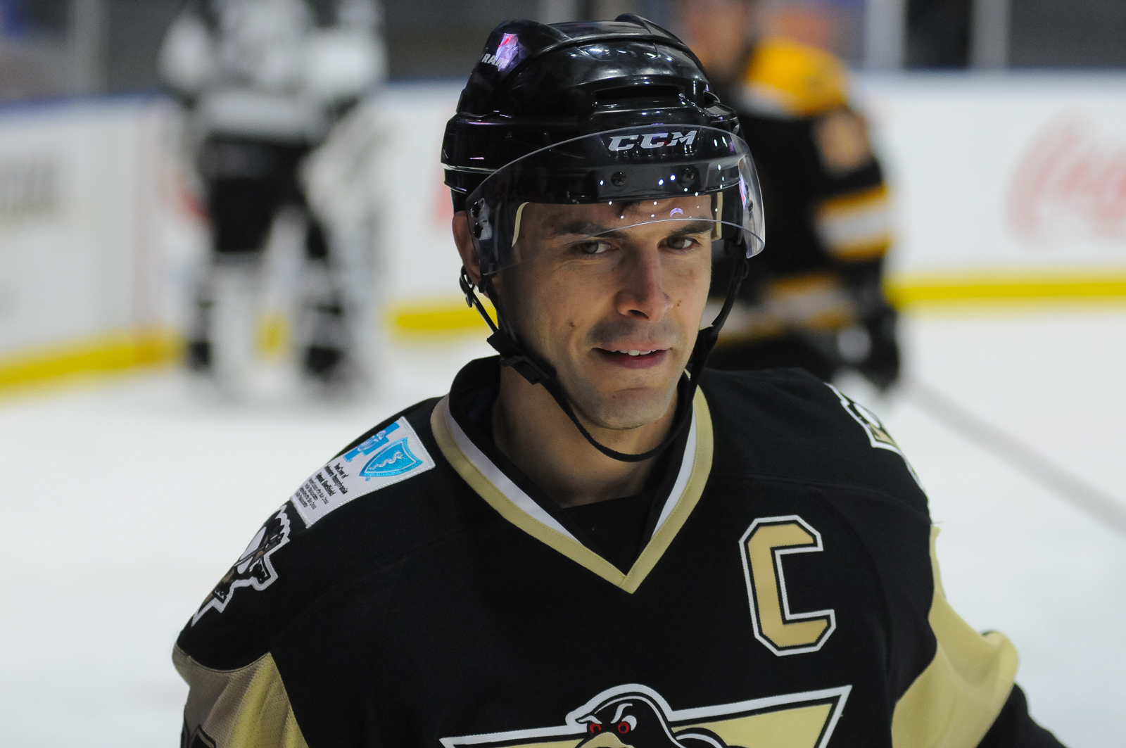 Tom Kostopoulos during the 2015 AHL All-Star game